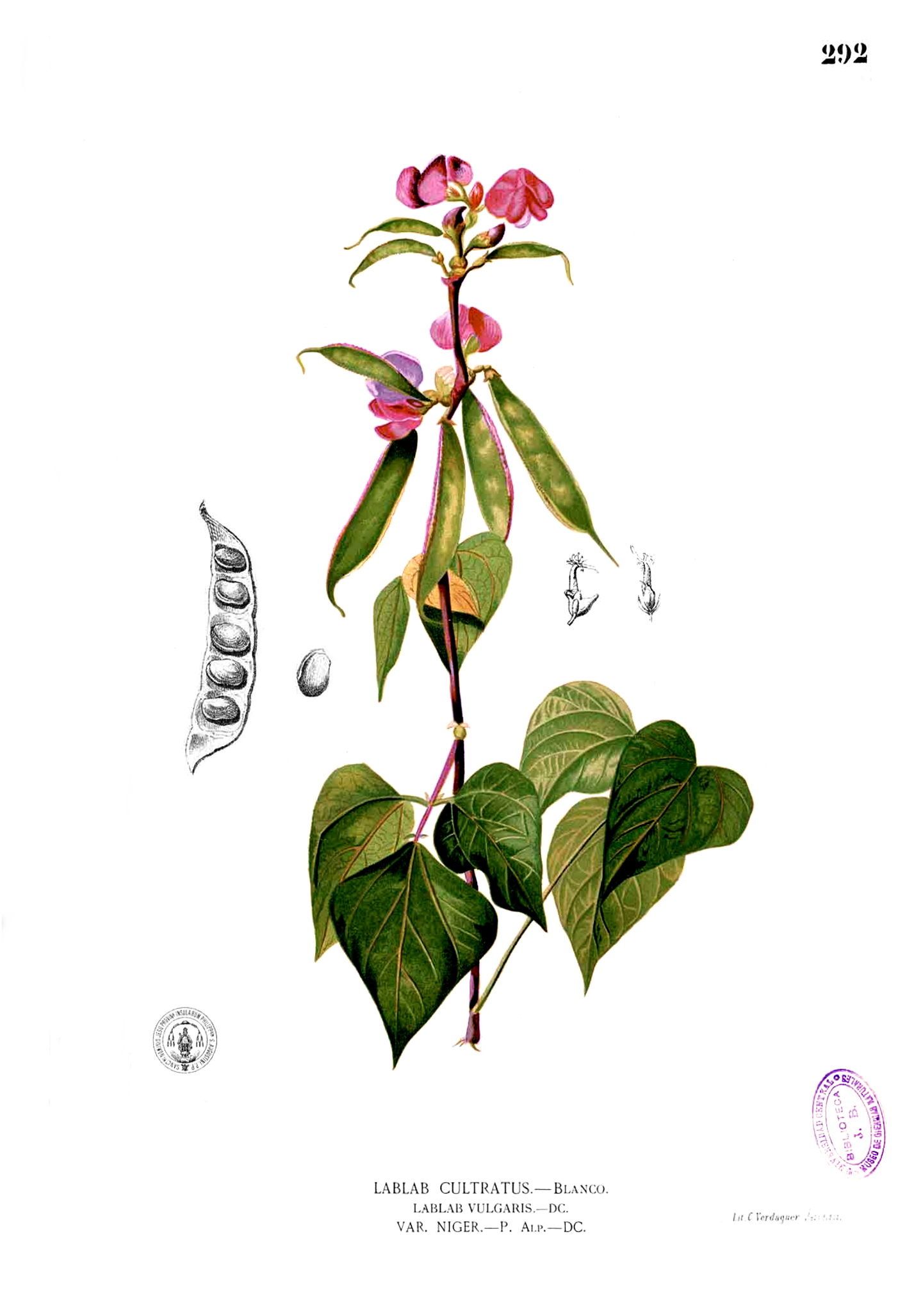 Plate from book